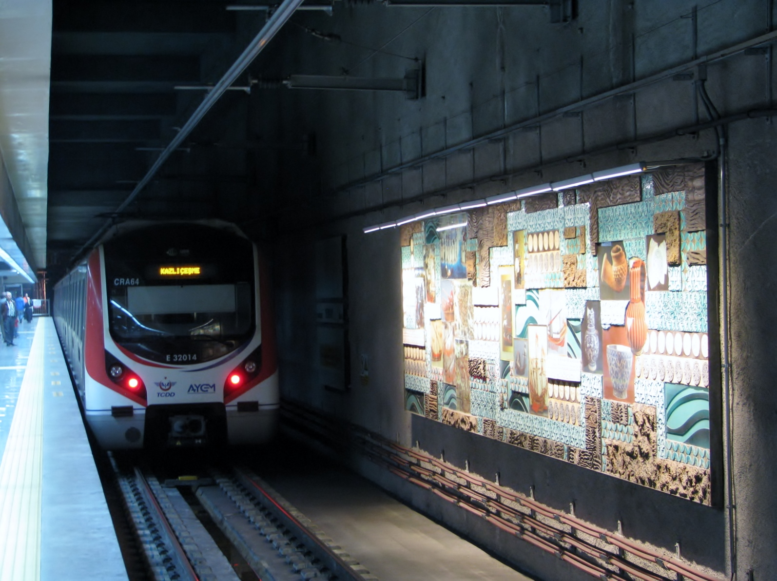 Marmaray